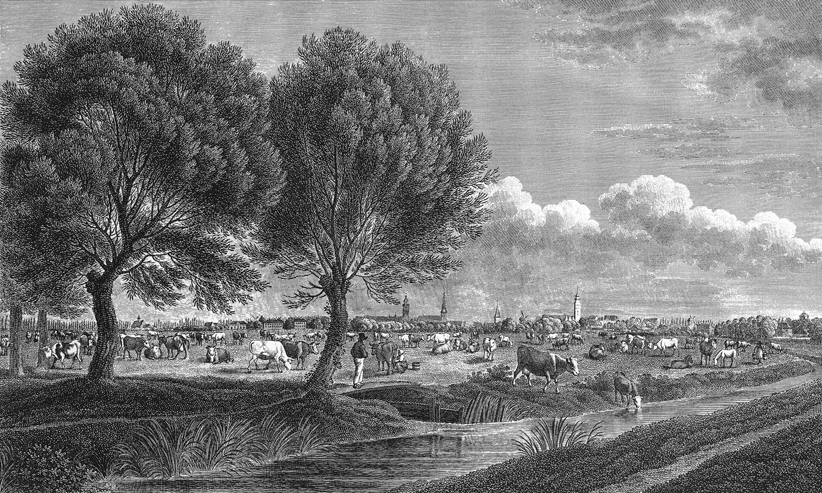 the Bürgerweide (“Citizens’ pasture”) in Bremen with the city silhouette in the background.